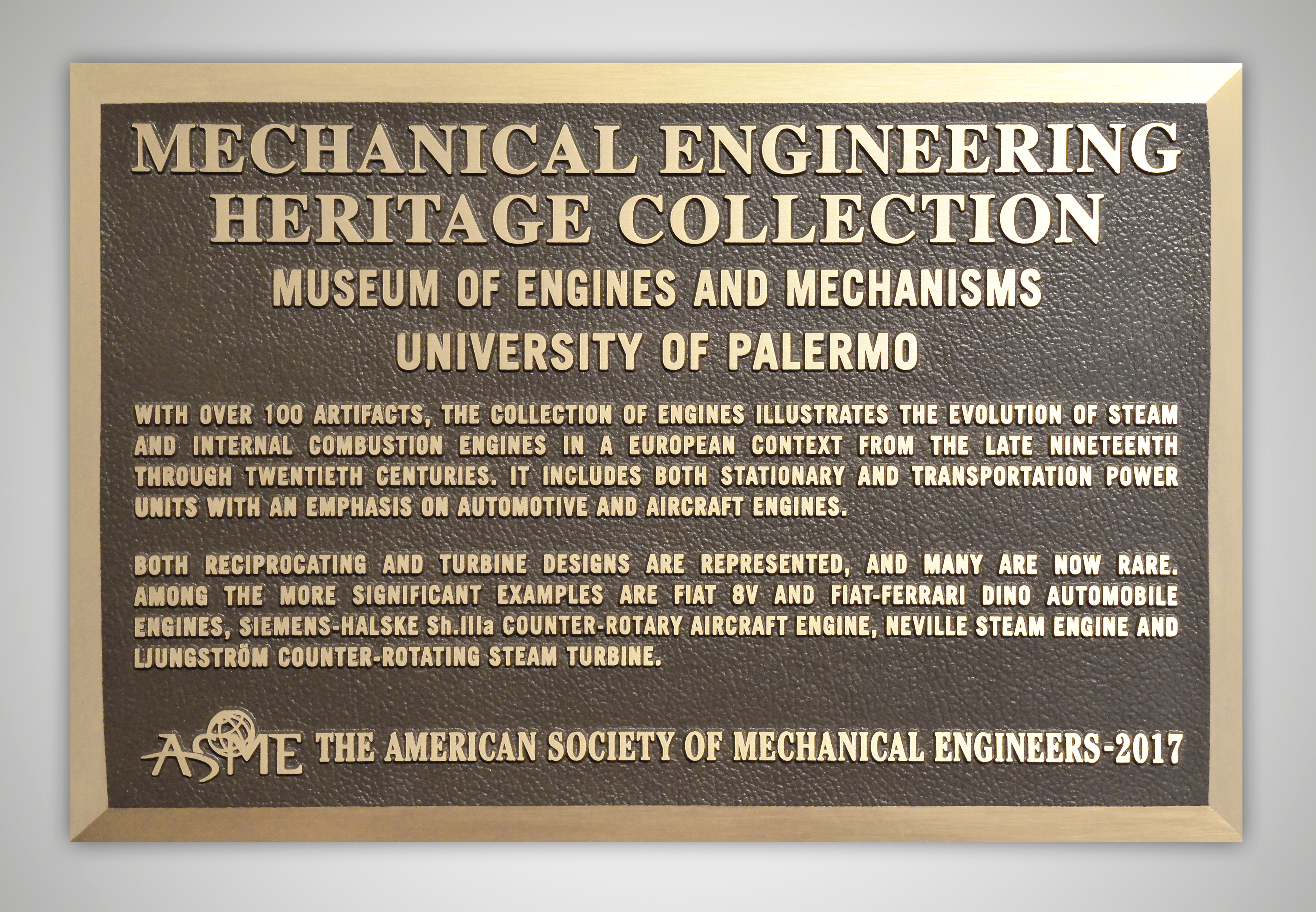 La targa ASME Landmark del Museo esposta all'ingresso del Museo dei Motori.